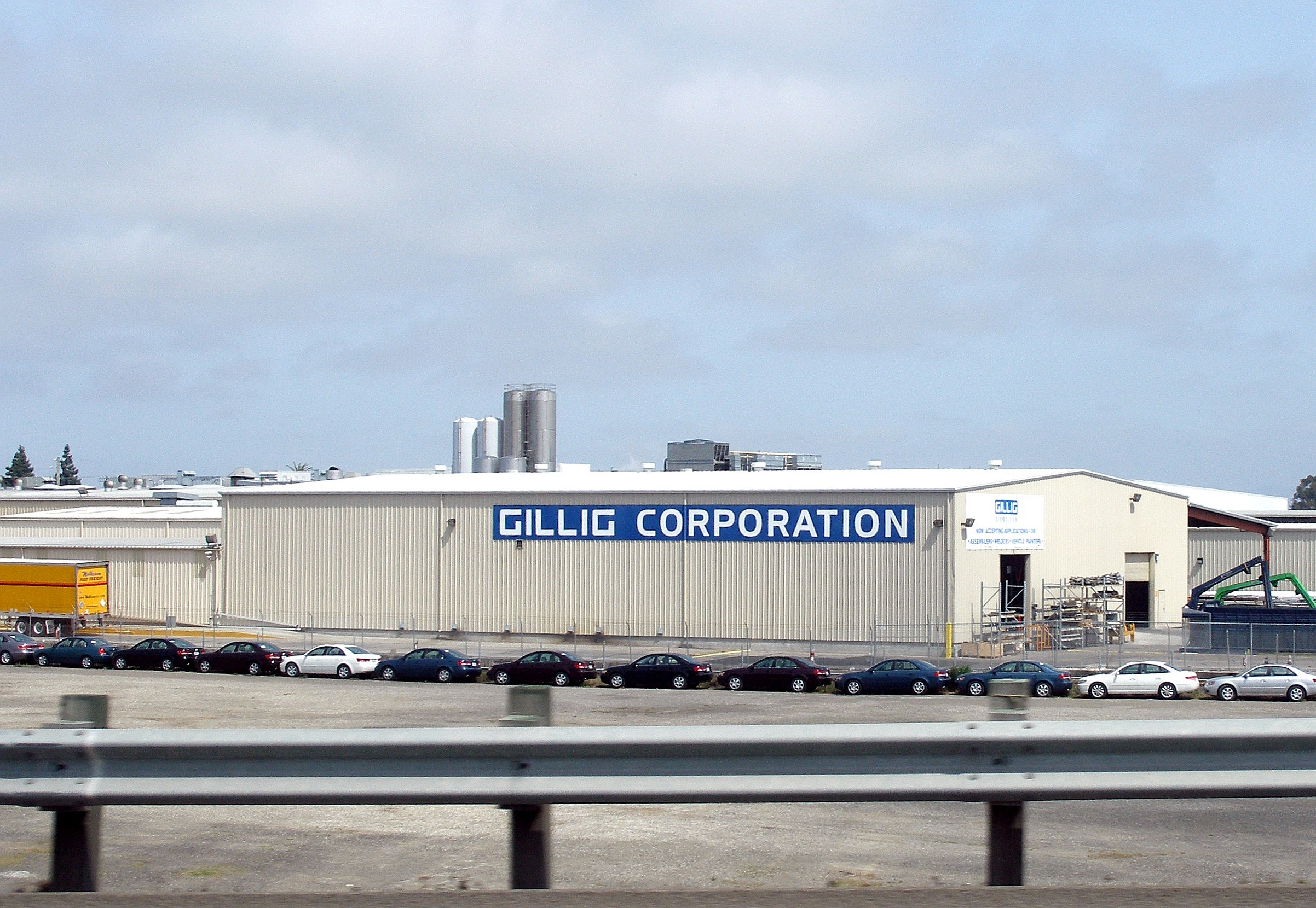 Gillig Corporation's headquarters in Hayward, as seen by passing vehicles on State Route 92.